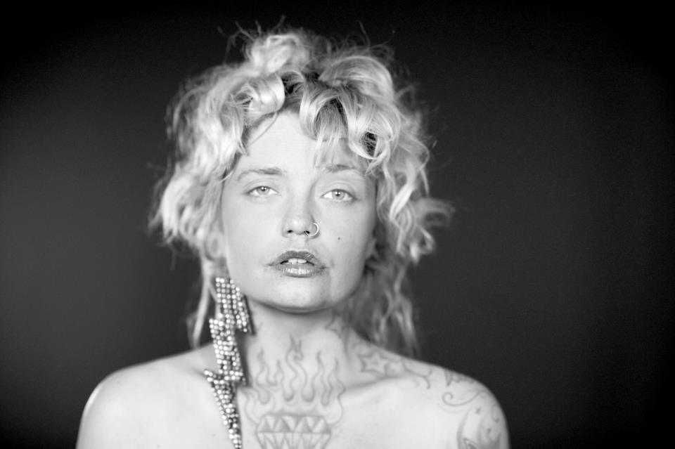 This is a picture of Cazzi Opeia. The picture is completely license free.